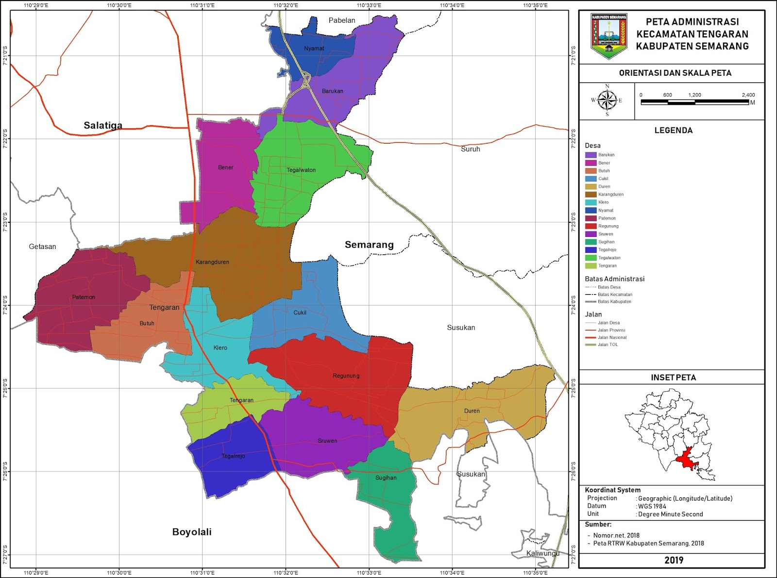 Map of Tengaran District of Semarang Regency, Central Java Province, Indonesia